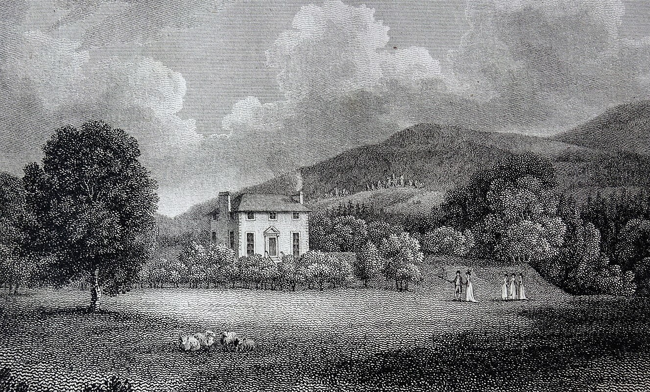 Friars' Carse, Auldgirth, Nithsdale in 1805 when it was owned by Dr Smith. Robert Burns' friend Robert Riddell lived here.